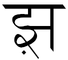 This is the 'zh' character of the Devnagri / Devanagari script.